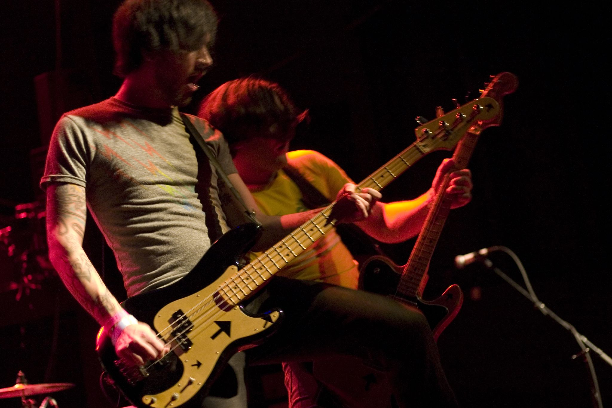 The band Verona Grove in concert at the Blender Theater in November 19, 2007